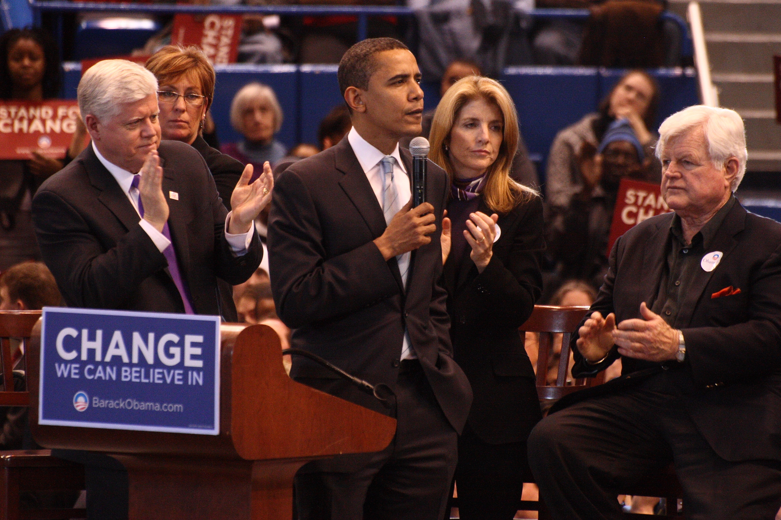 John Larson, Barack Obama, Caroline Kennedy, and Ted Kennedy